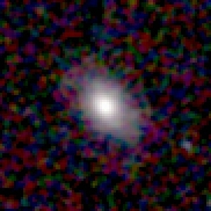 Galaxy NGC 440